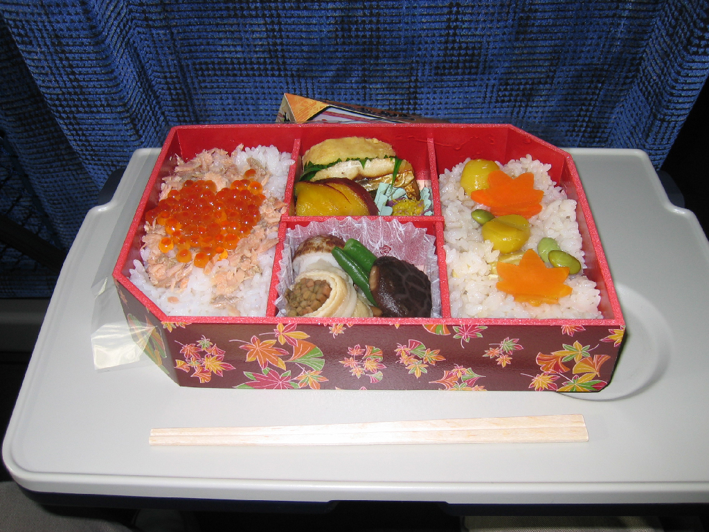 A typical $10 (1000 Yen) Bento, bought from a bento store in Tokyo Terminal. This image was taken in October of 2004 in Tokyo.